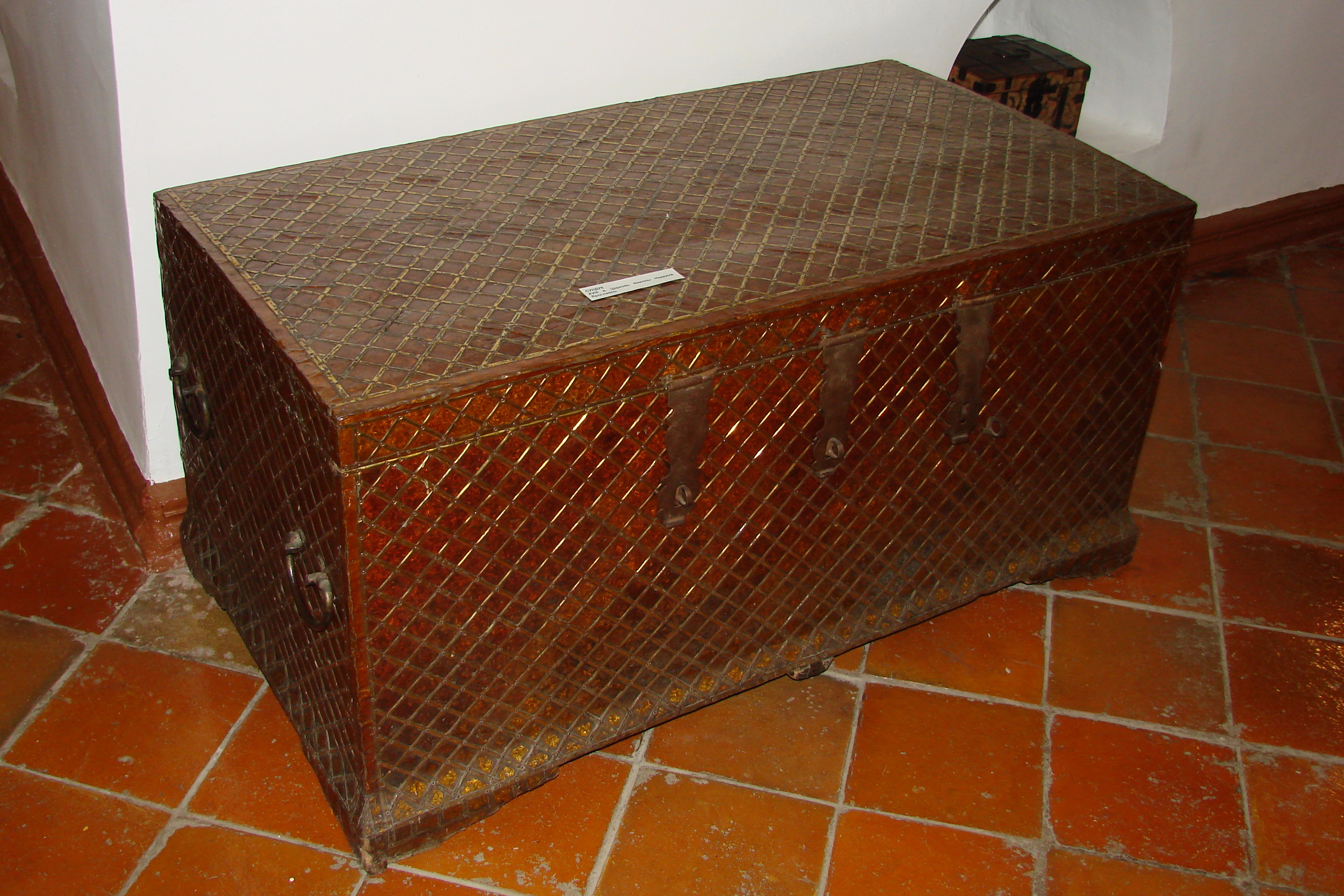 Chest. Russia. XVIII century